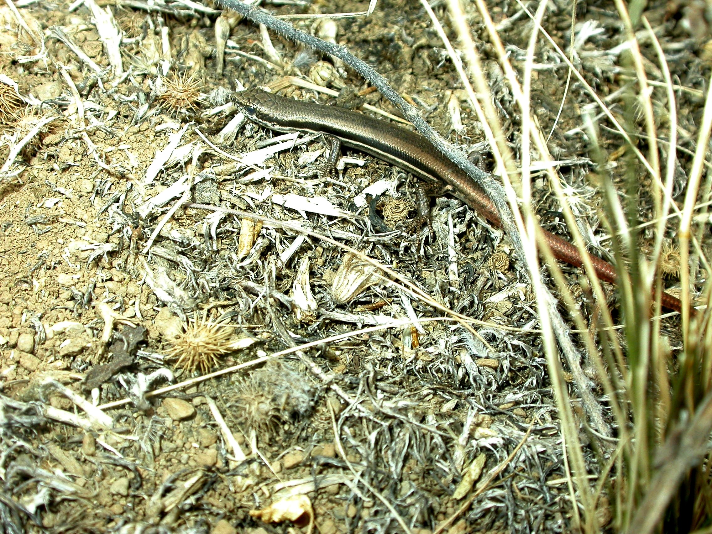 Morethia boulengeri (Ogilby, 1890), near Yass, NSW, 22 March 2008